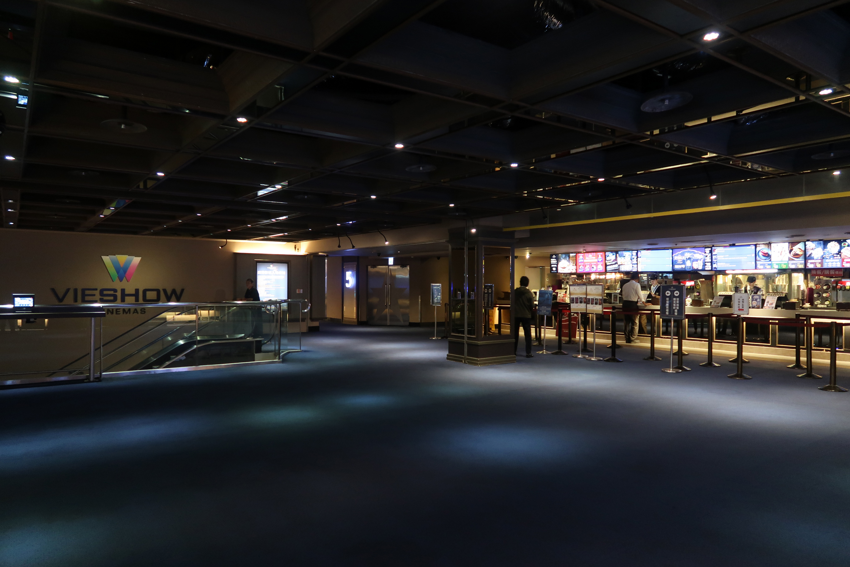 Tiger City Level 4 Vieshow Cinema